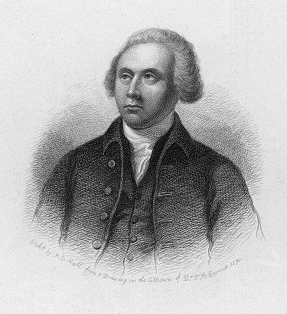 An engraving of Thomas Nelson, Jr., a signer of the United States Declaration of Independence